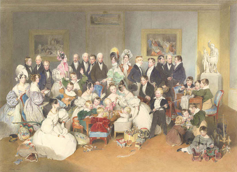 Francis I, Emperor of Austria (1768-1835) with his family